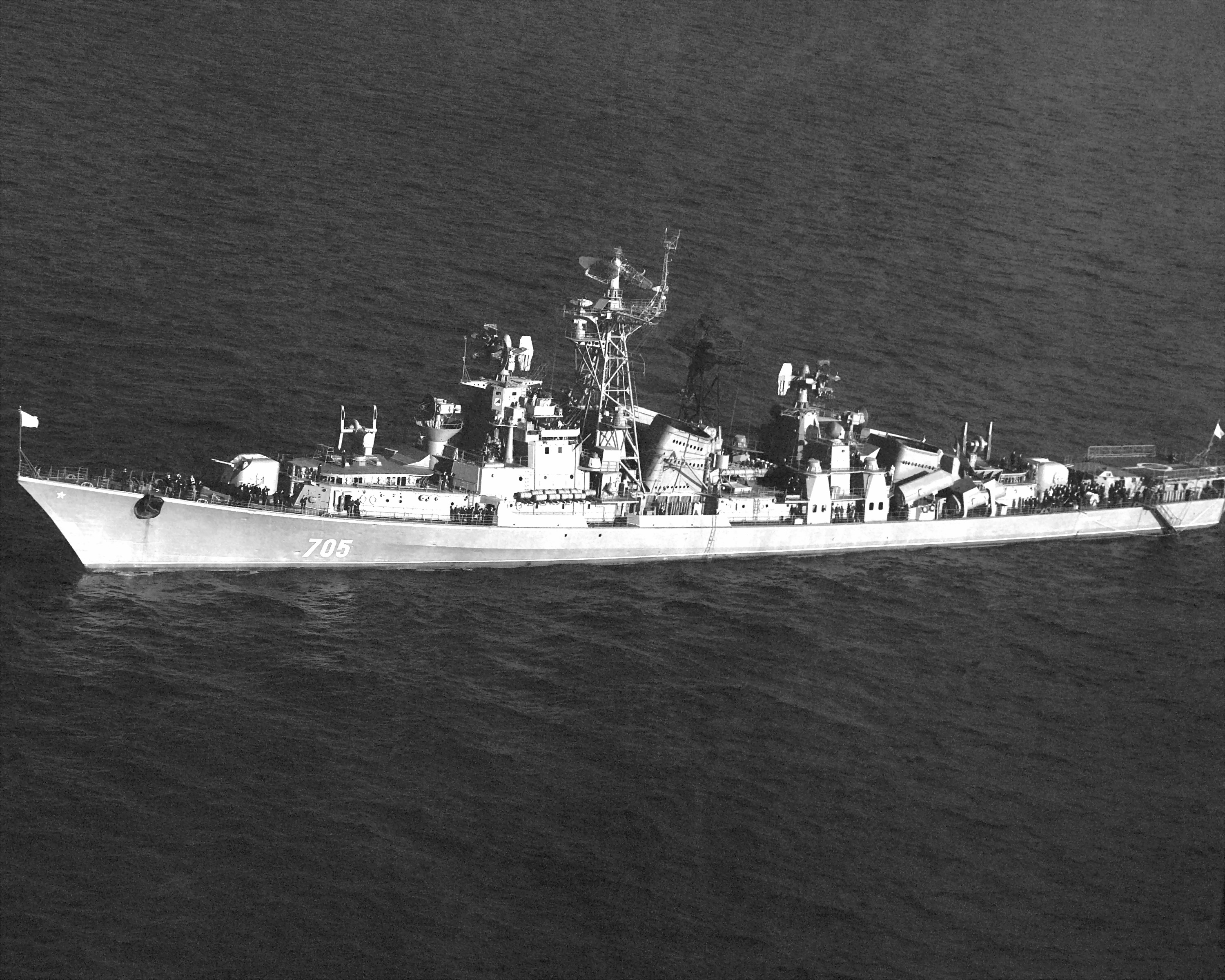 (DN-SN-89-09638) A port view of the Soviet project 61-MP large anti-submarine ship (NATO code - modified Kashin class destroyer) STROYNY. (Released to Public)